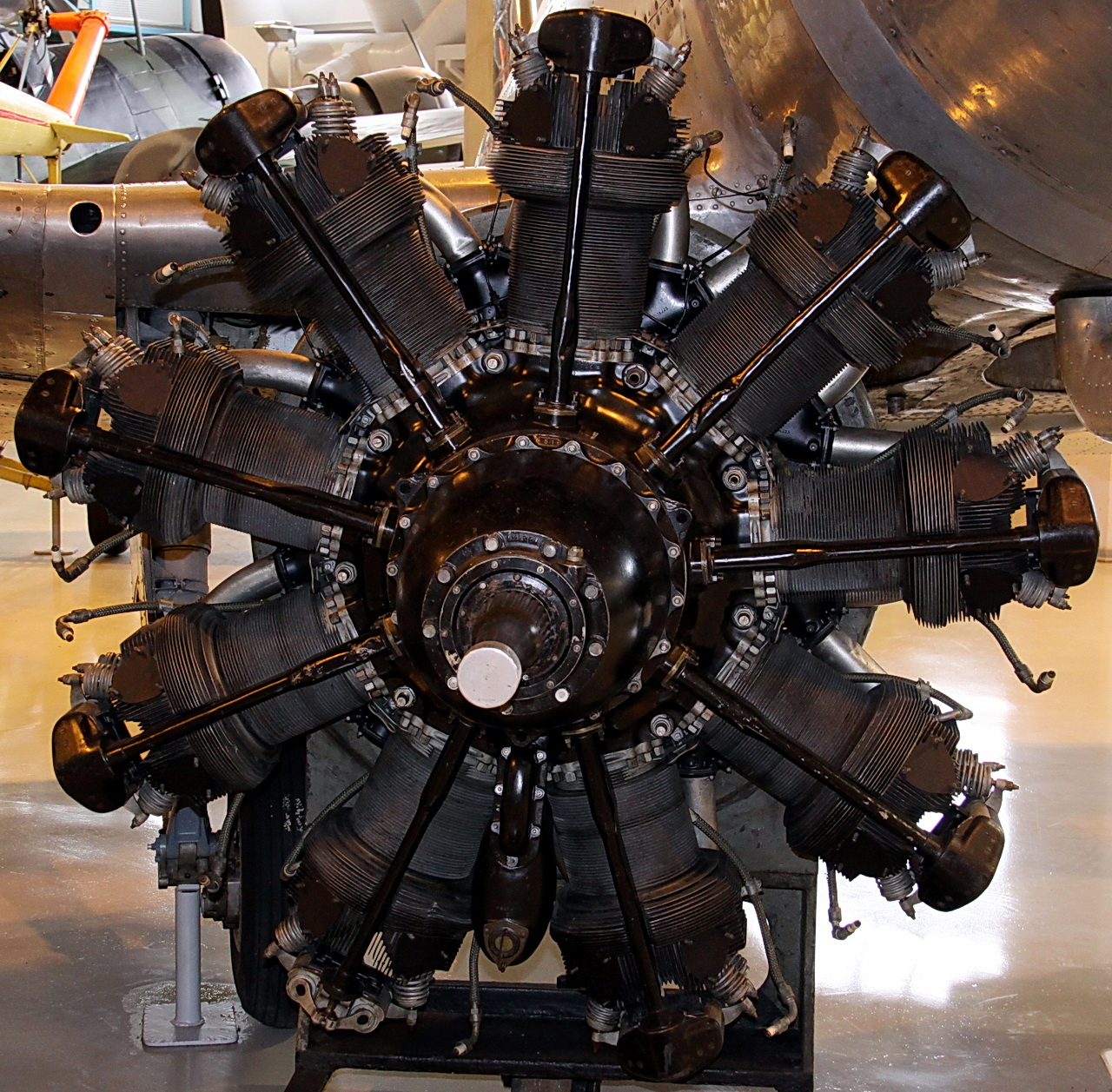 Bristol Pegasus XXI in Aviation Museum of Central Finland.